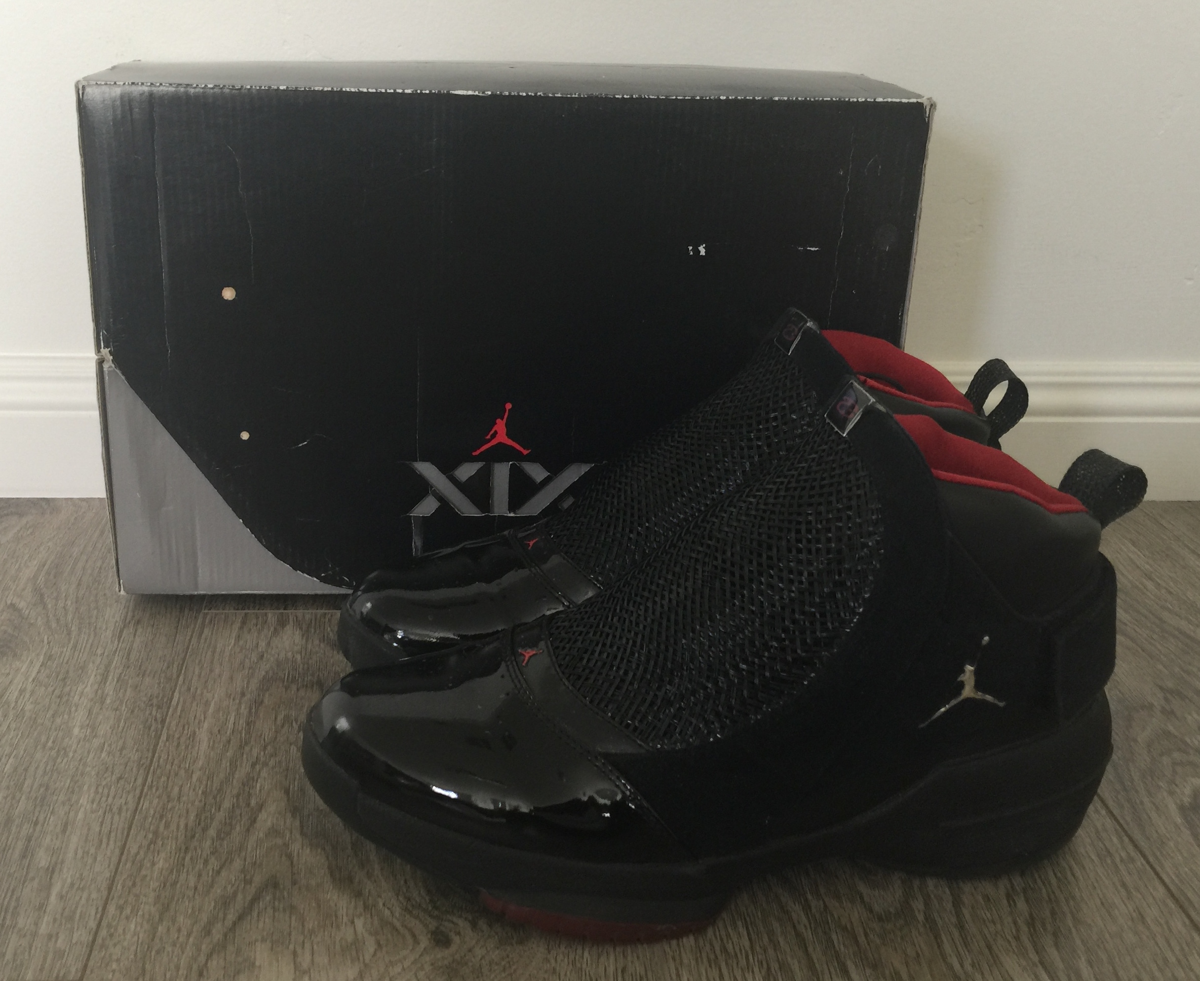 Air Jordan XIX, (Black Mamba Colorway)